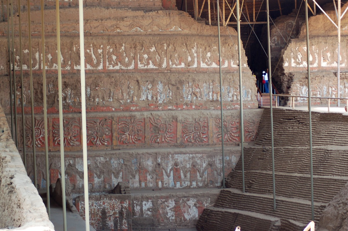 Huaca de la Luna (Trujillo, Peru). Decorated wall: painted bas-reliefs.